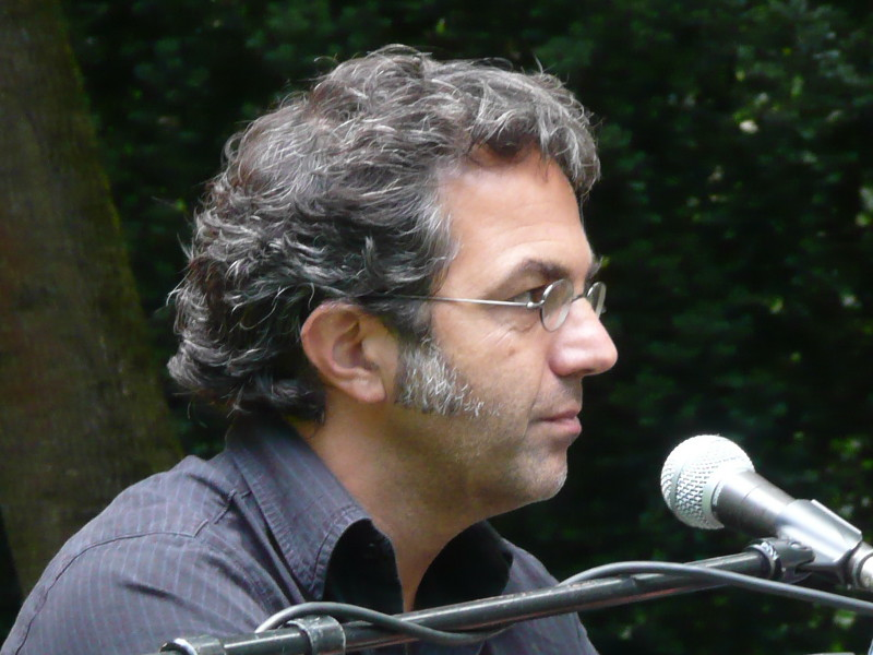 German author and orientalist Navid Kermani during an interview at the Erlanger Poetenfest 2011